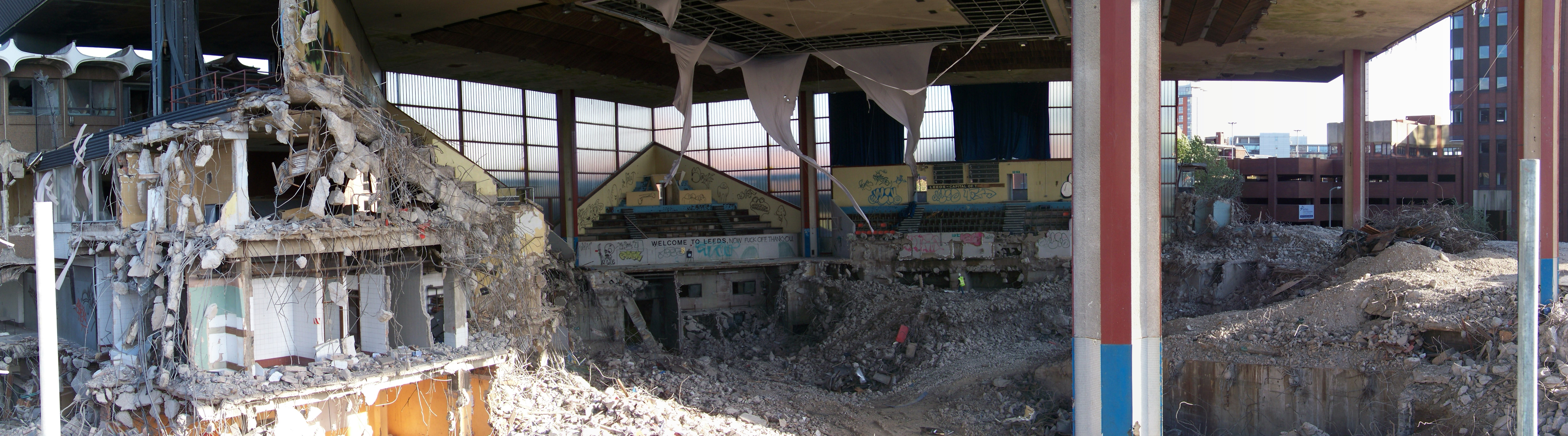 A panoramic image taken during the demolition of the architectuallu devisive Leeds International Swimming Pool, which was designed by disgraced architect John Poulson and opened in 1967. The pool closed in October 2007 and is seen here two years later during its demolition on the afternoon of Saturday 3rd October 2009.